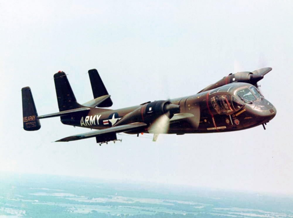 A U.S. Army Grumman OV-1C Mohawk (s/n 60-3750) in flight. This aircraft crashed at El Centro, California (USA), on 21 June 1972.